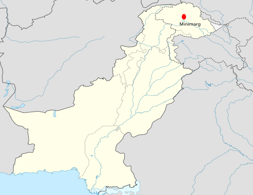 red dot shows the location of village